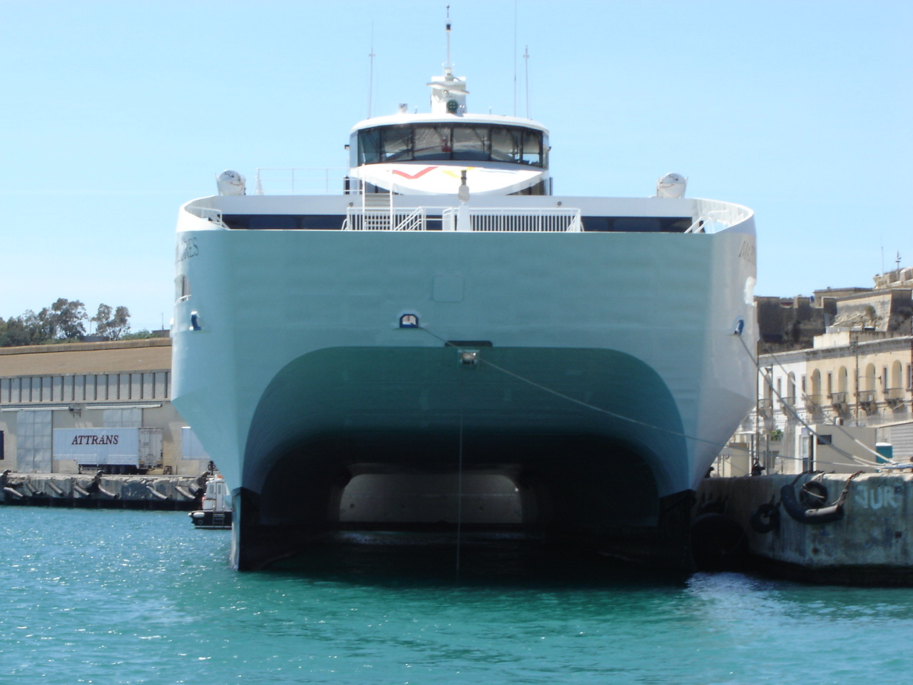 The Virtu Ferries catamaran Maria Dolores at the Grand Harbour in April 2006.